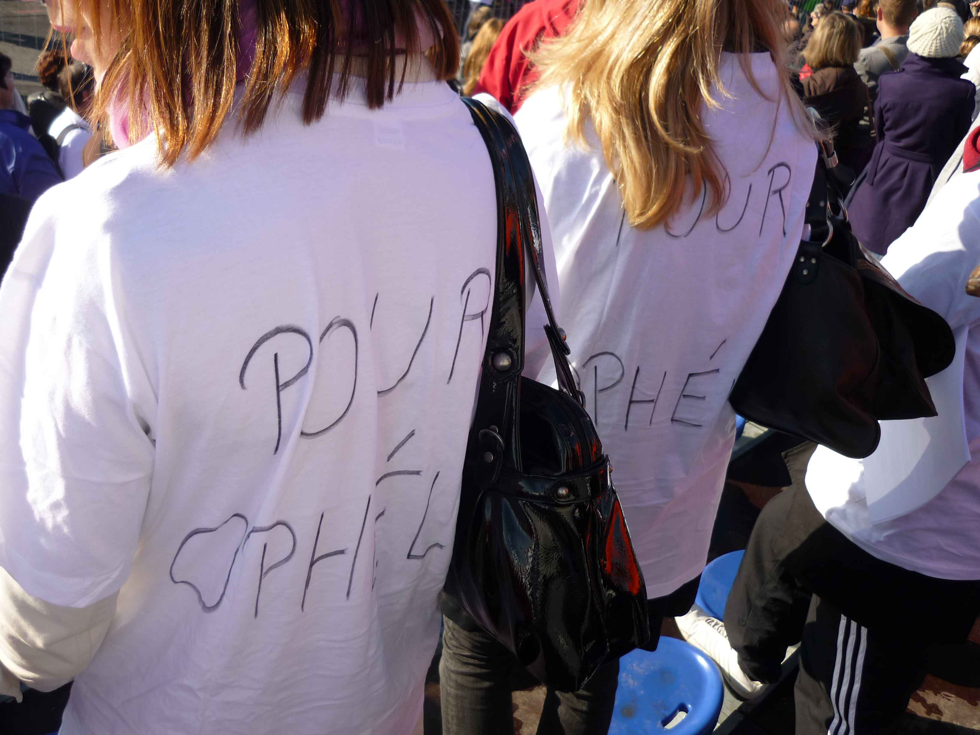 Reims semi marathon 2009